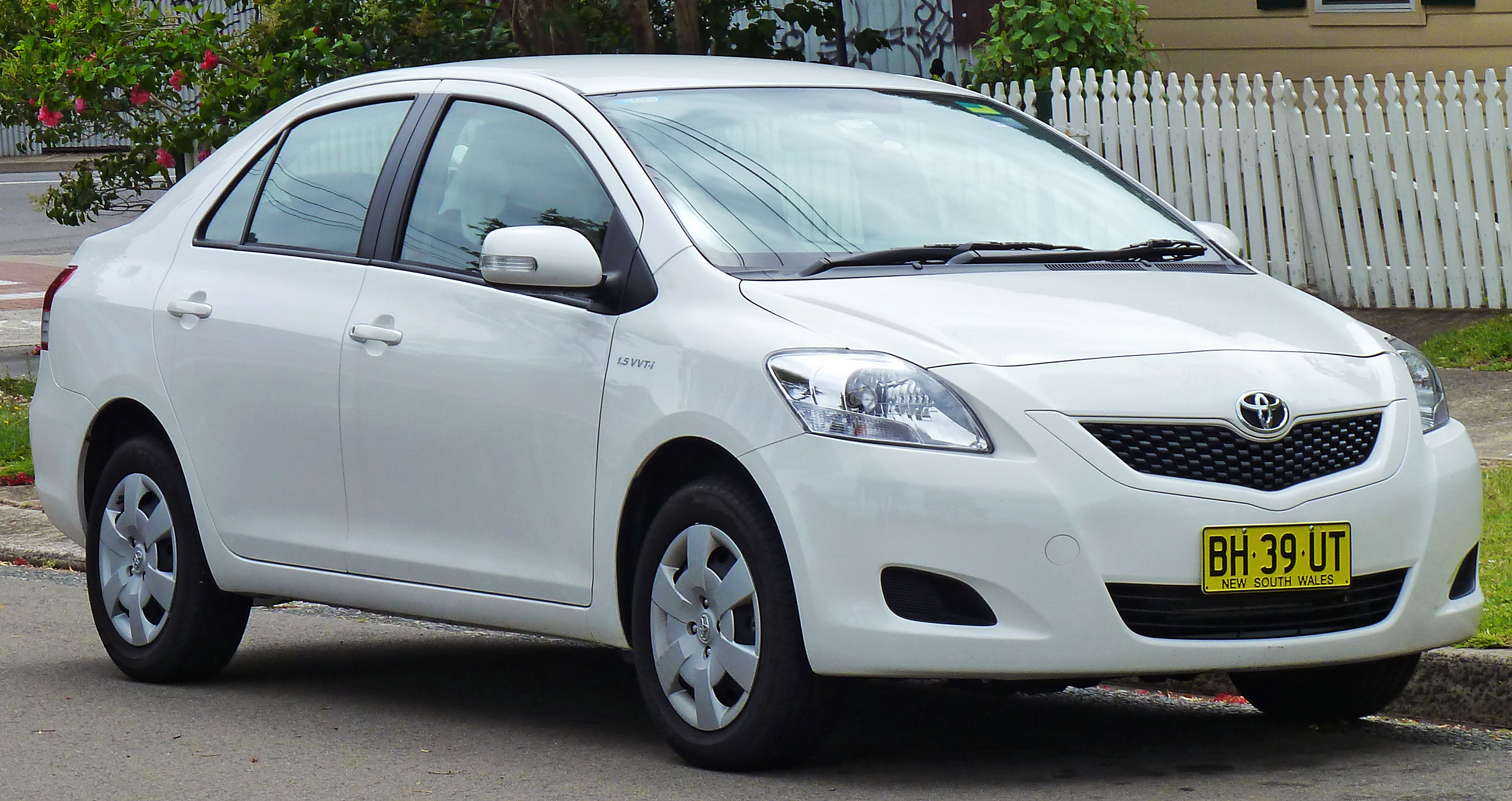 2008–2010 Toyota Yaris (NCP93R) YRS sedan. Photographed in Kogarah, New South Wales, Australia.